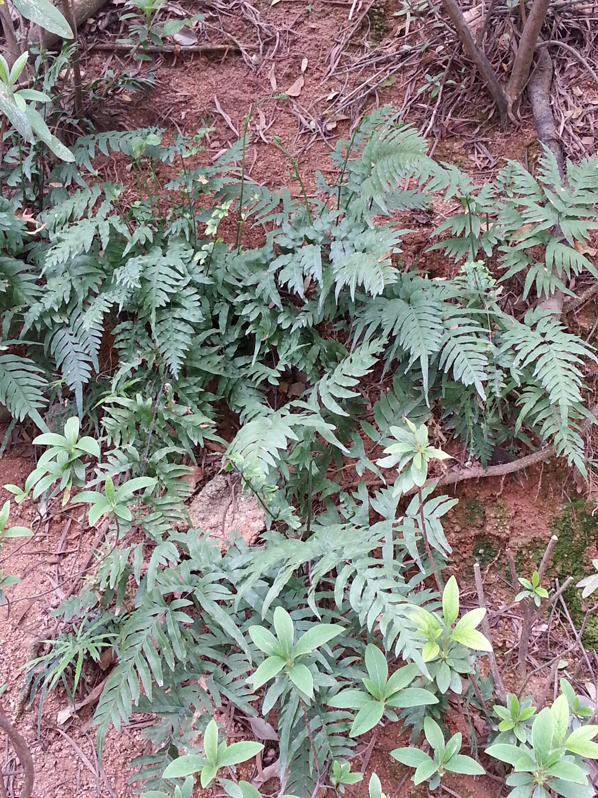 Pteris fauriei中文（香港）: 傅氏鳳尾蕨(傅氏蕨)